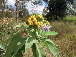 Photograph of solanum mauritianum (earleaf nightshade).